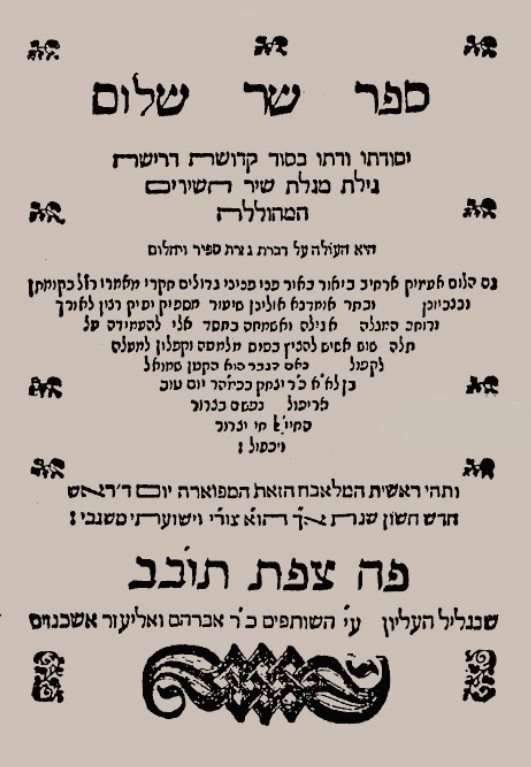 Title page of the Sar Shalom commentary on Song of Songs, printed in Safed 1579